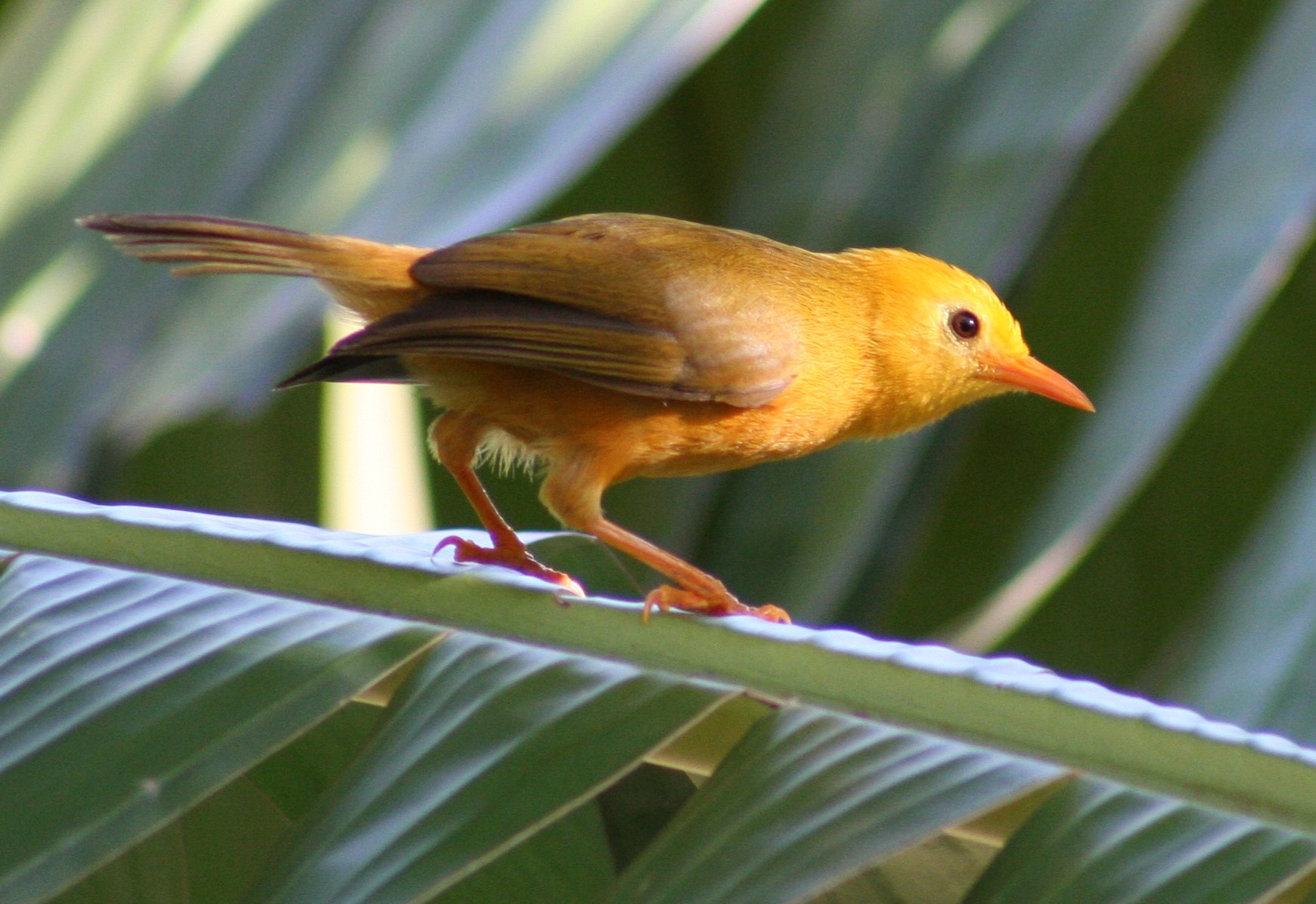 Golden White-Eye